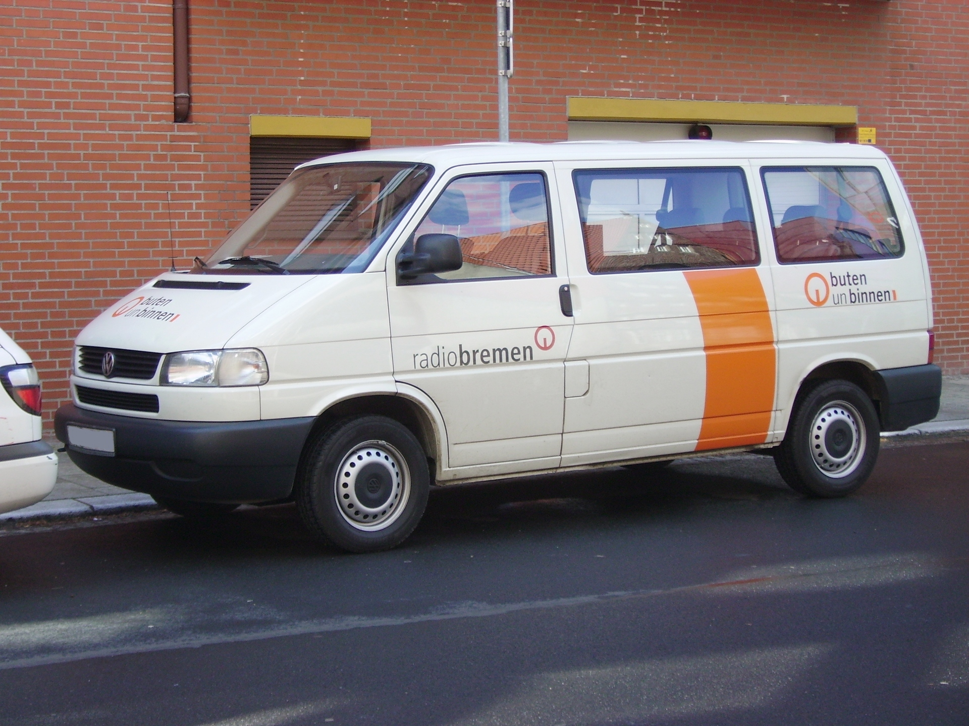 A Volkswagen transporter in service for Radio Bremen